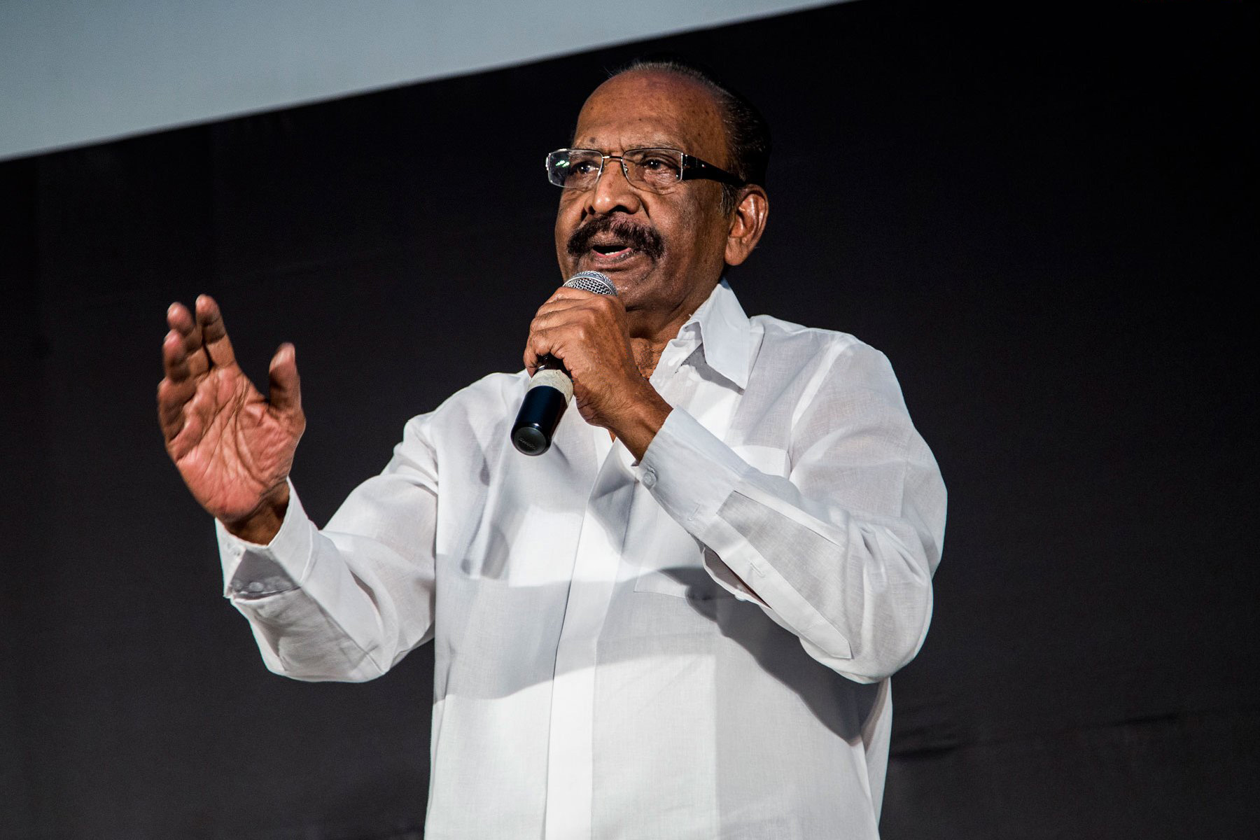 J Mahendran at Veena S Balachander Felicitation